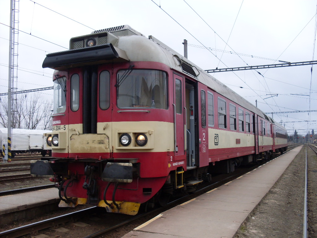 Motor vehicle 854.204-5 (Bohunka) of České dráhy in Jaroměř